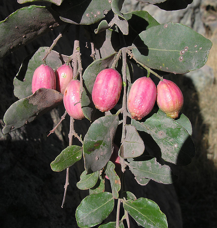 Known as Peumo, a large tree of central and southern Chile. The fruit is edible. In context at